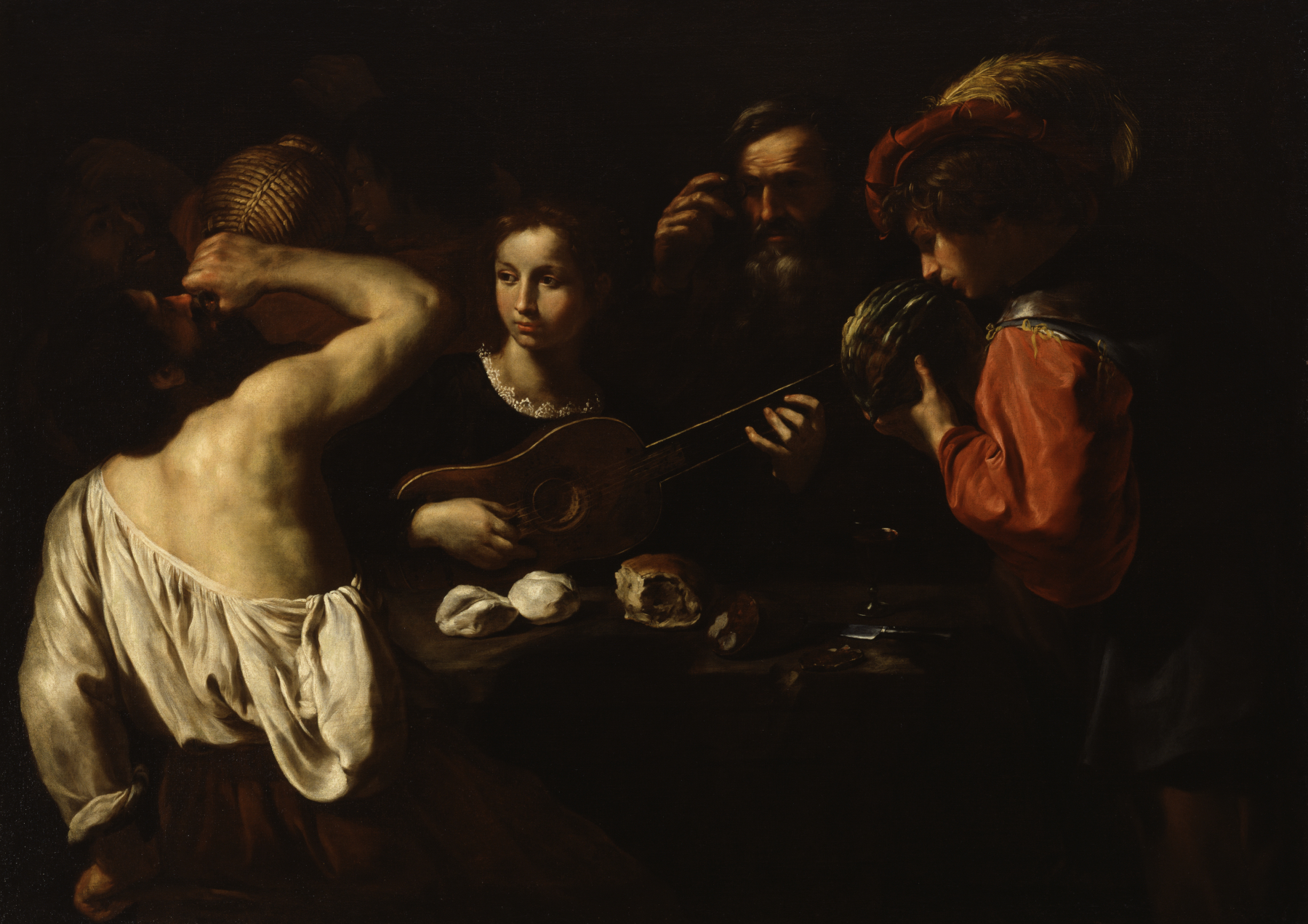 At first glace, this is simply a scene in a darkened inn frequented by the poor and down-and-out. Embedding a classical allegory (a symbolic image) in such a subject makes it especially intriguing. Each person acts out one of the five senses: sound is represented by the woman with a lute, at center; taste, by the man emptying a flask of wine; smell, by the young man with a melon; sight, by the man on the right holding a pair of spectacles; and touch, by the two people who are fighting. Paolini's allegory dates from his early years in Rome, where he studied the paintings of Caravaggio (1571-1610), known for their realism and strong chiaroscuro (modeling in light and shade).